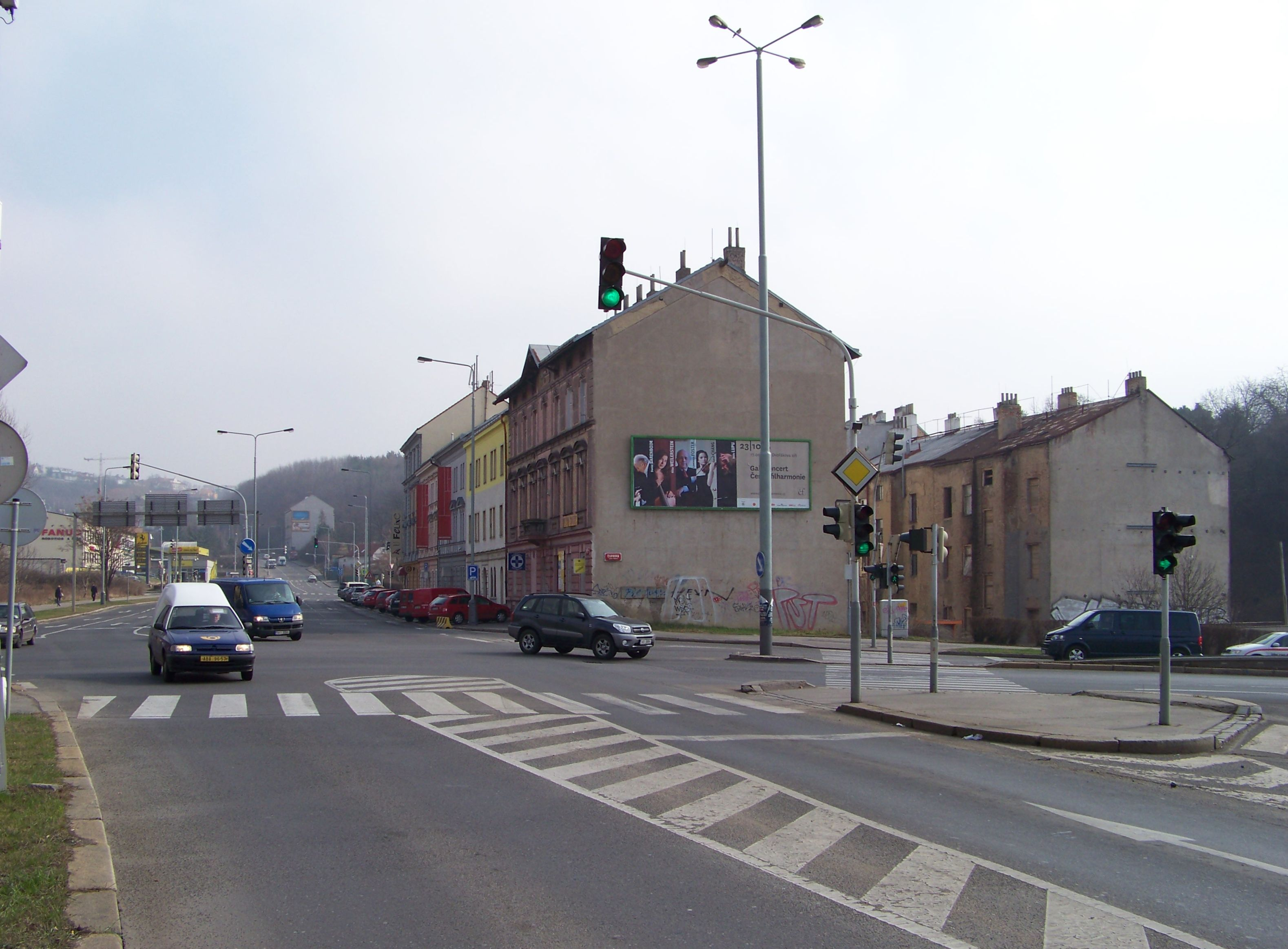 Prague-Libeň, the Czech Republic. Prosecká – Čuprova intersection. - OpenStreetMap(Info)